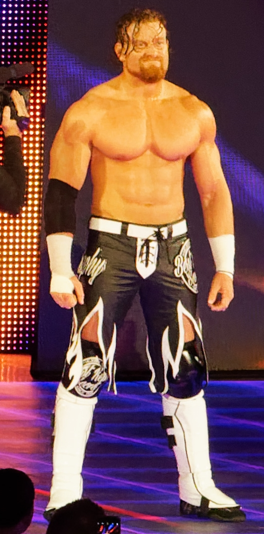 Image of Buddy Murphy taken on April 10, 2018